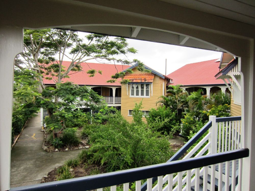 1915 Suburban Timber School Building, Cannon Hill State School